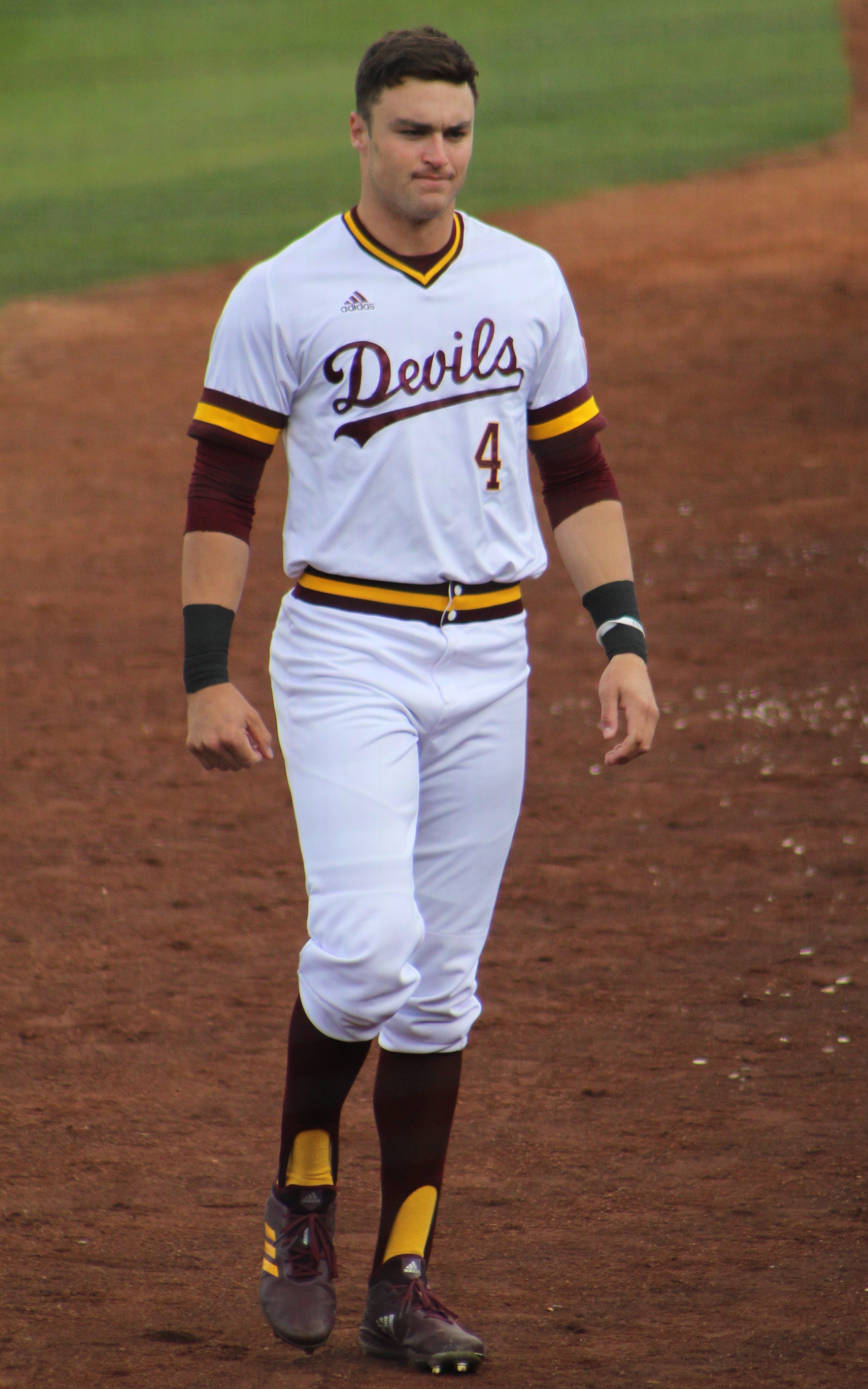 Hunter Bishop with the Arizona State Sun Devils during a game in February 2019